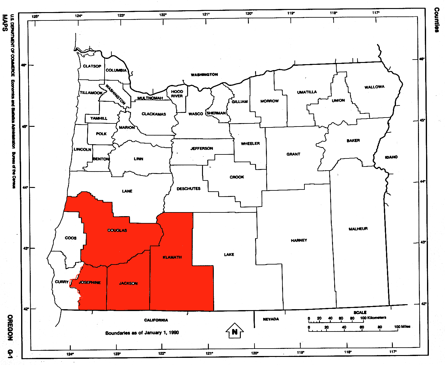 Location of Southern Oregon based on Image:Oregon Counties.gif